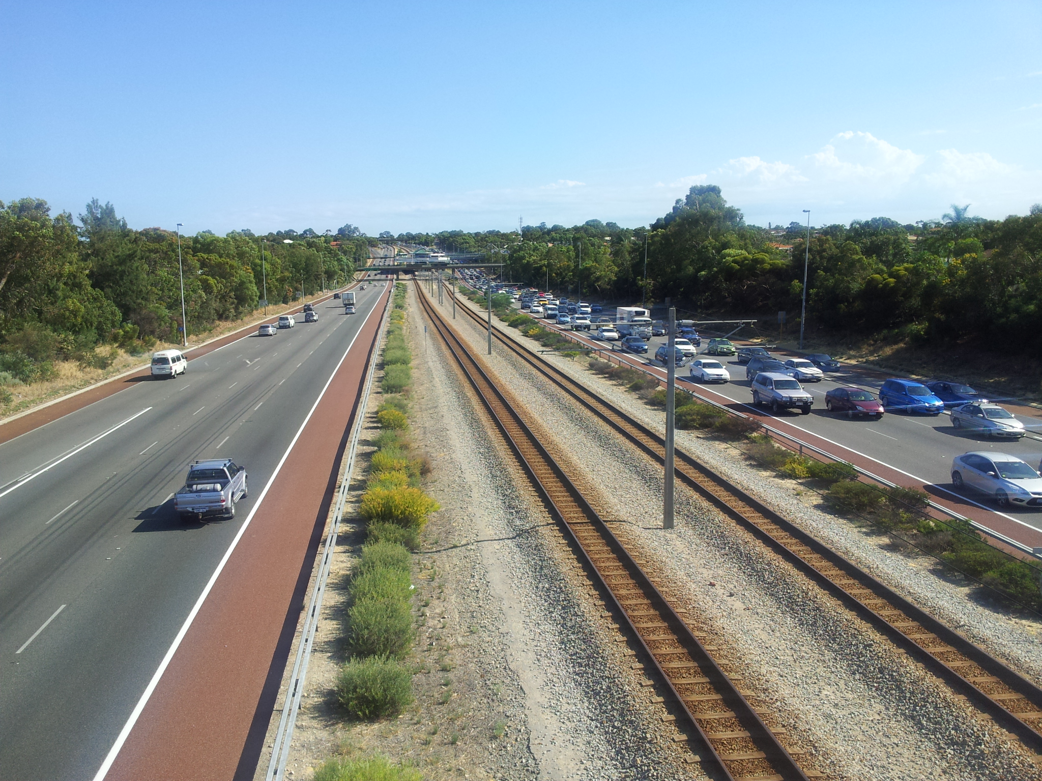 Morning peak period on Mitchell Freeway, looking north from Walter Way footbridge, Hamersley, Western Australia.